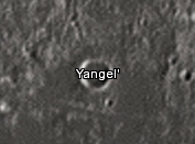 Yangel lunar crater as seen from Earth with satellite craters labeled